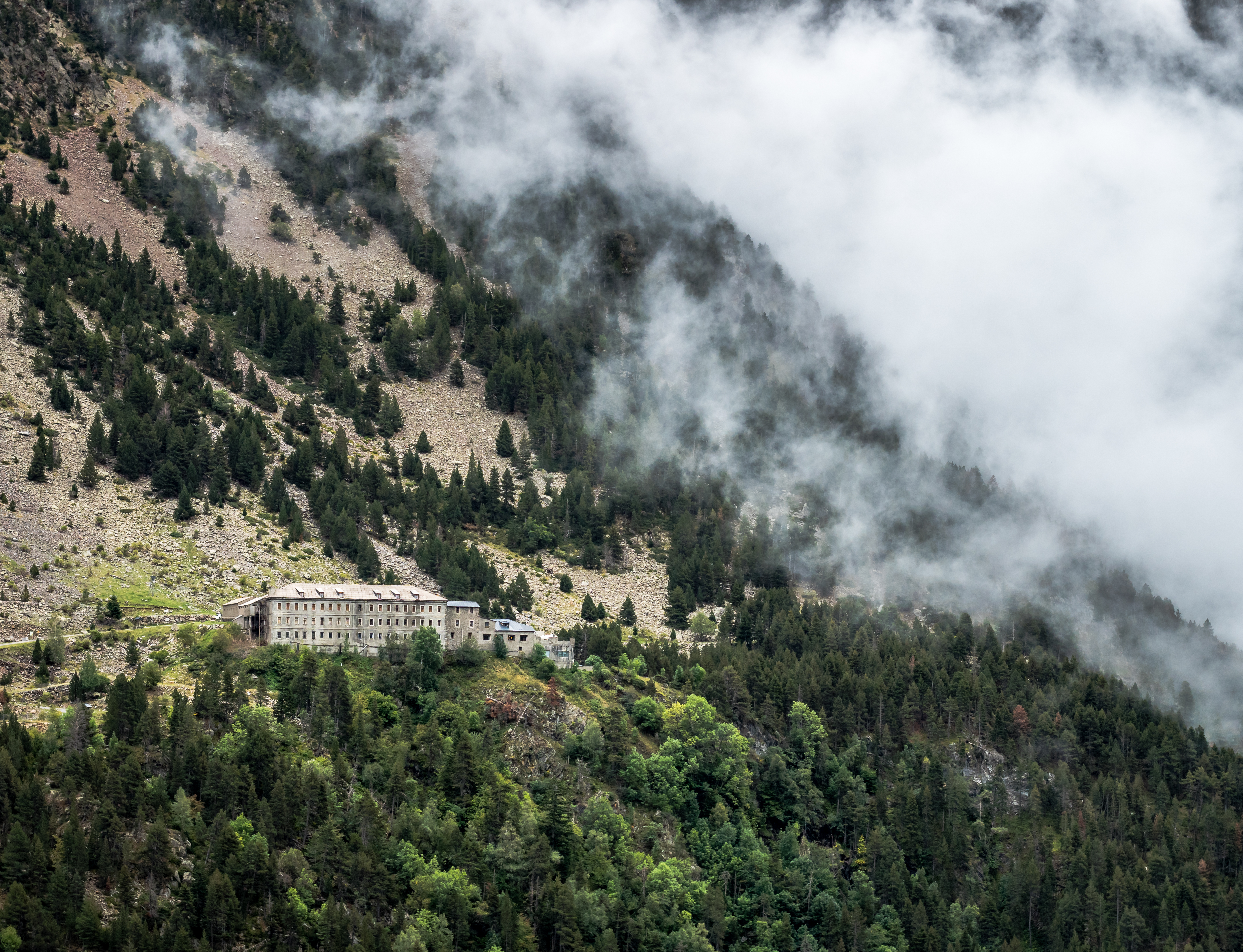 Baños de Benasque Spa. Huesca, Aragon, Spain